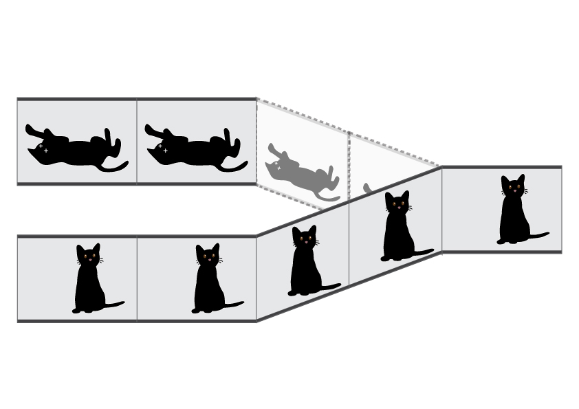 코펜하겐 해석에서는 산 고양이와 죽은 고양이의 상태가 중첩되어 있다가 관찰자의 관찰 행위로 오그라듦이 일어나 한 가지 상태만 현실화된다.